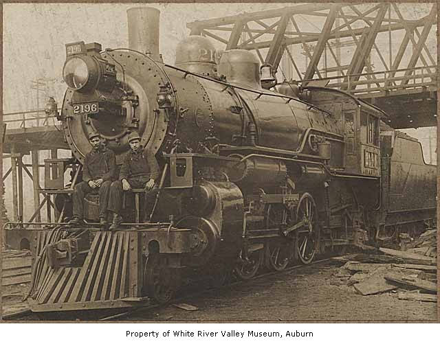 Locomotive in railroad yard with two unidentified employees. View source image . More information on the commercial rights for this photo . Part of King County Snapshots University of Washington Libraries . Brought to you by IMLS Digital Collections and Content . Unrestricted access; use with attribution.